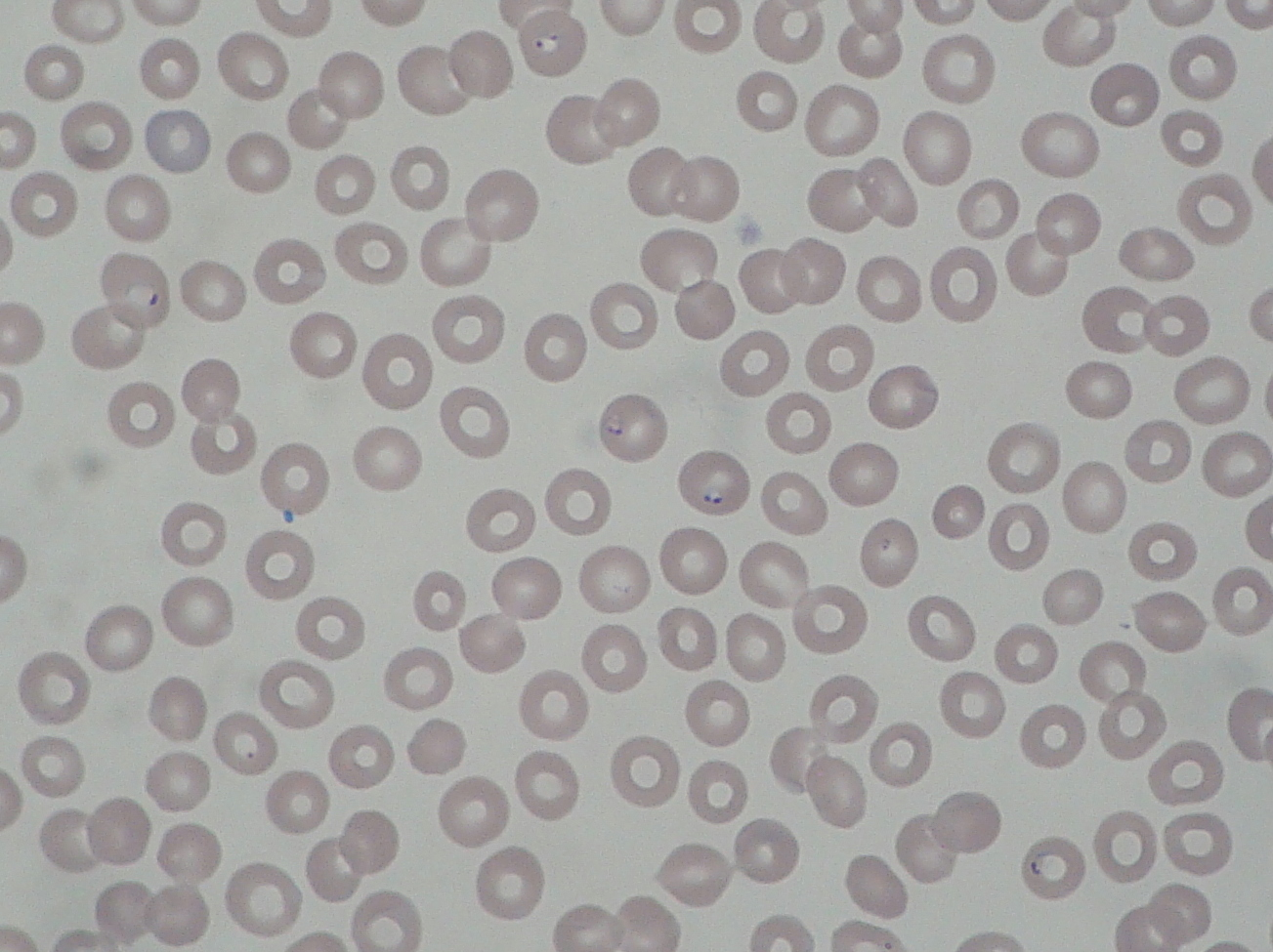 Trophozoites of Plasmodium falciparum